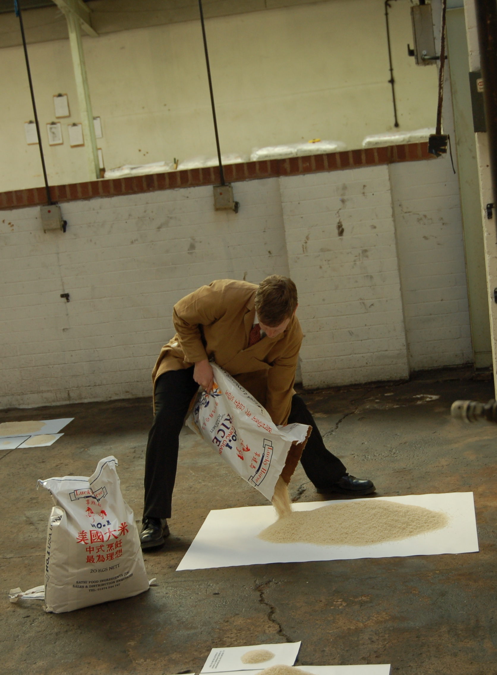 Two bags - became the number of people displaced in Darfur. Stan's Café's 'Of All The People In All The World' is a show where there is a grain of rice for every person on the planet. That's a lot of rice. A.E. Harris Factory 110 Northwood Street, Birmingham B3 1SZ